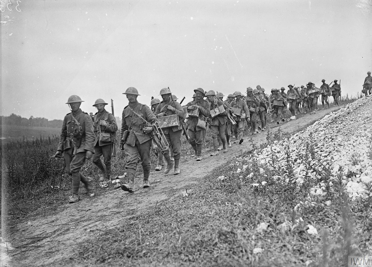 The Battle of the Somme, July-november 1916 Bomb carrying party of the 1st Battalion, Sherwood Foresters (Nottinghamshire & Derbyshire Regiment) going up to the front line at La Boisselle, 6th July 1916.